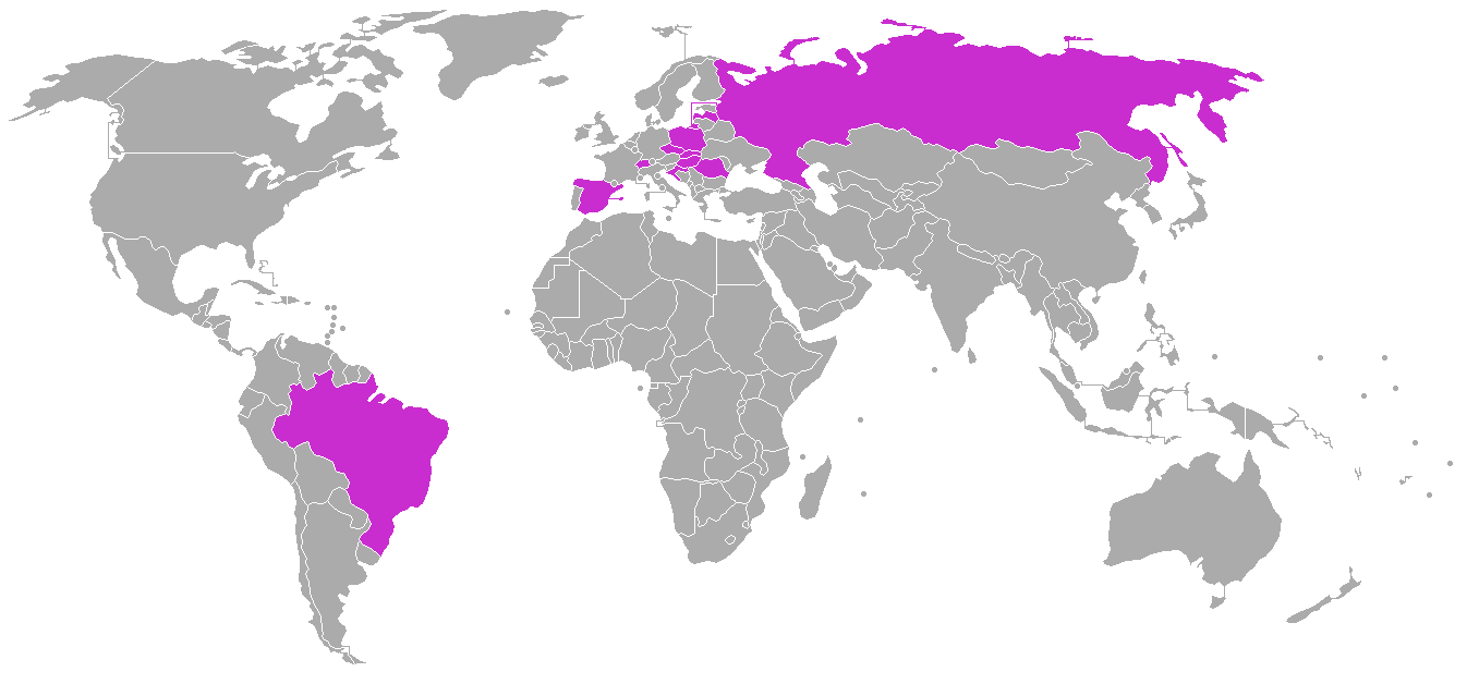 Map showing where the 153 currently (1 October 2007) installations of RONJA are located, based on data found at the official site. This map was created by Nikolaos S. Karastathis (NSK), also known as NerdyNSK on Wikipedia, and is a GFDL-licensed derivative work of the 18 April 2007 version of Image:BlankMap-World-v5.png which was made available under the GFDL (1.2 or later) by its original creator/uploader Astrokey44 and contributors Dbachmann, Hoshie, Wiz9999, and Tene.